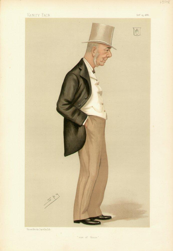 Statesmen No.504: Caricature of Sir Walter Barttelot Bt MP CB. Caption reads: "one of those"